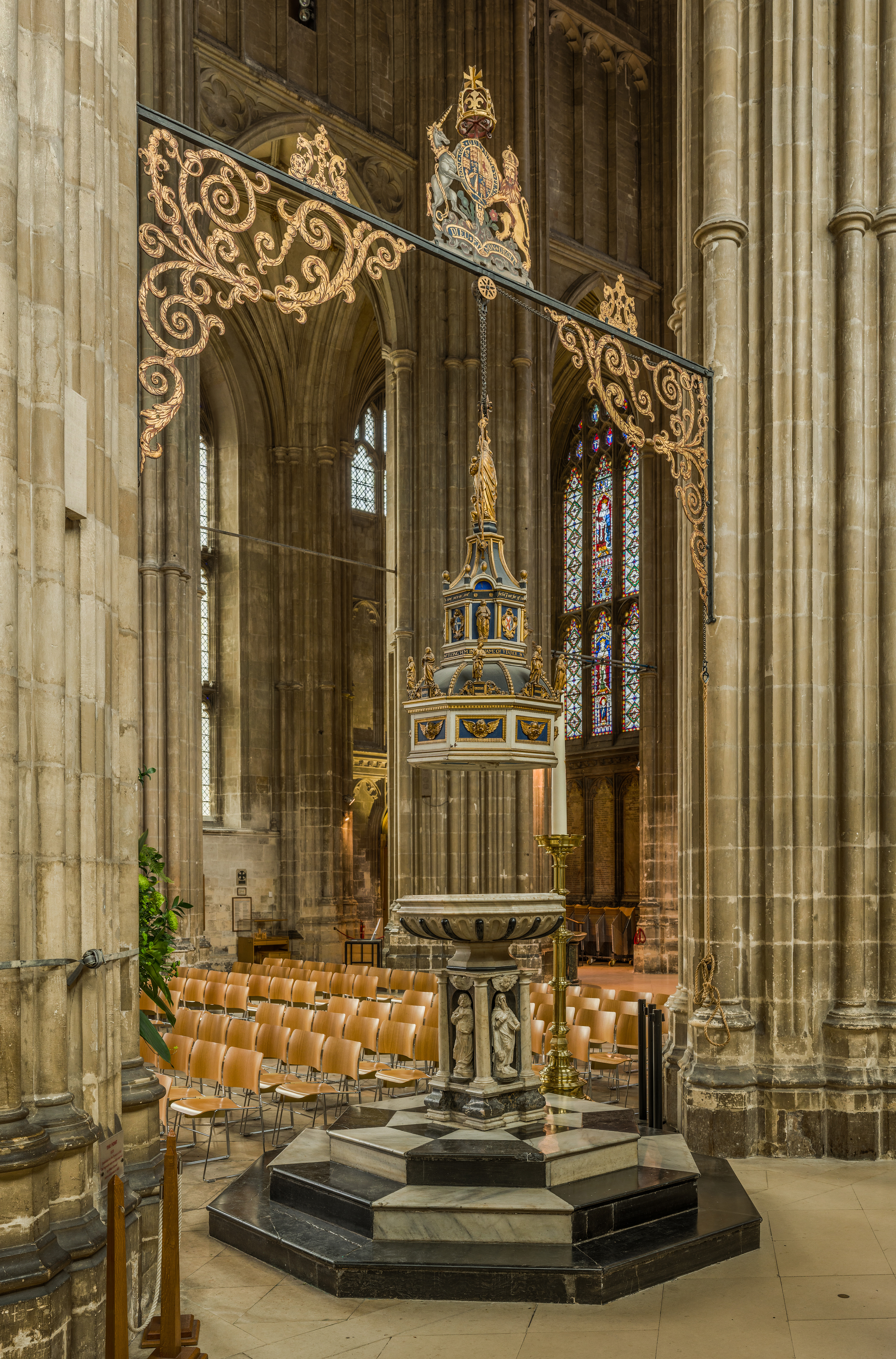 The font of Canterbury Cathedral, viewed from the north eastern side of the nave.